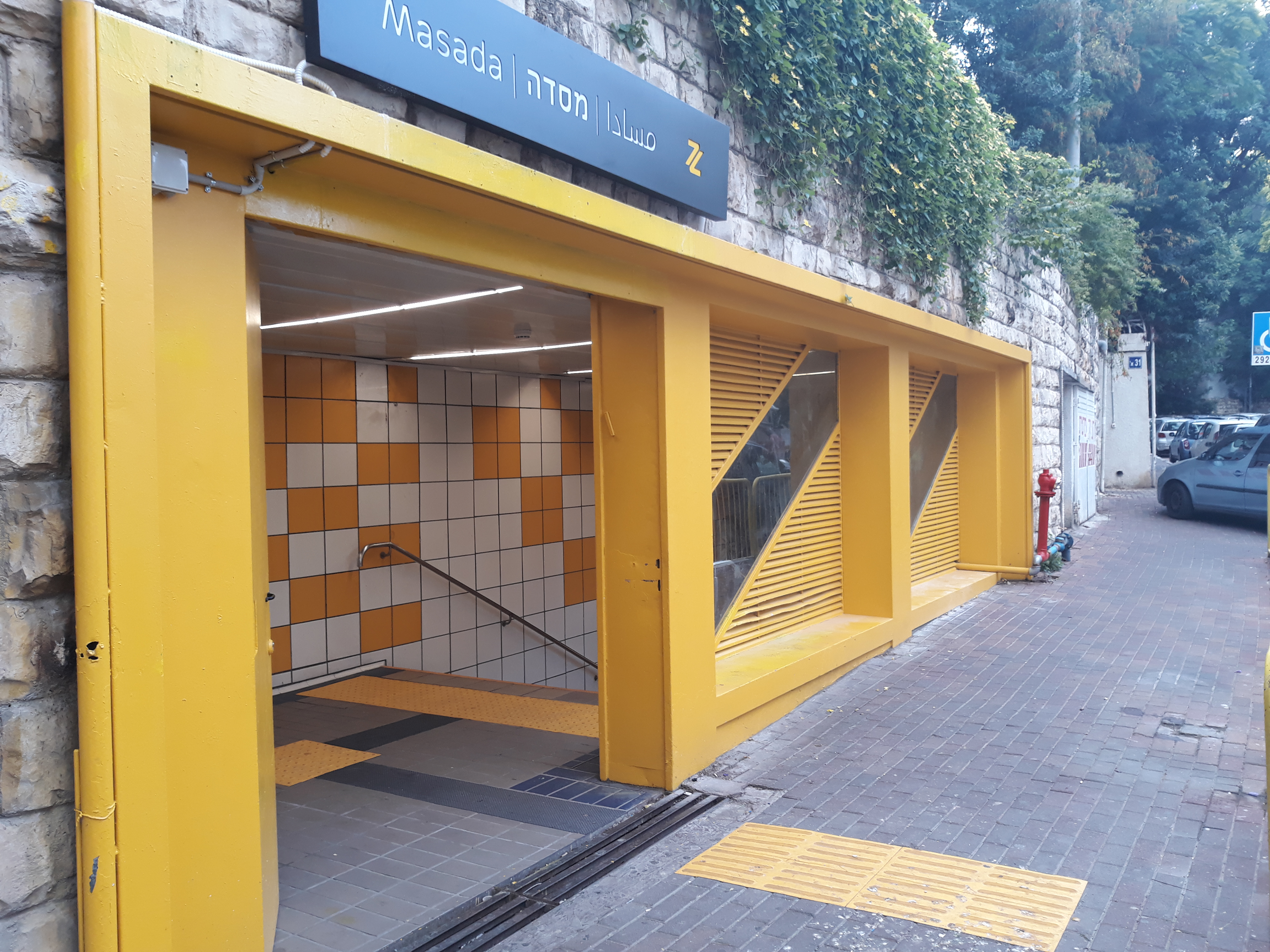 Carmelit subway in Haifa after its reopening in 2018